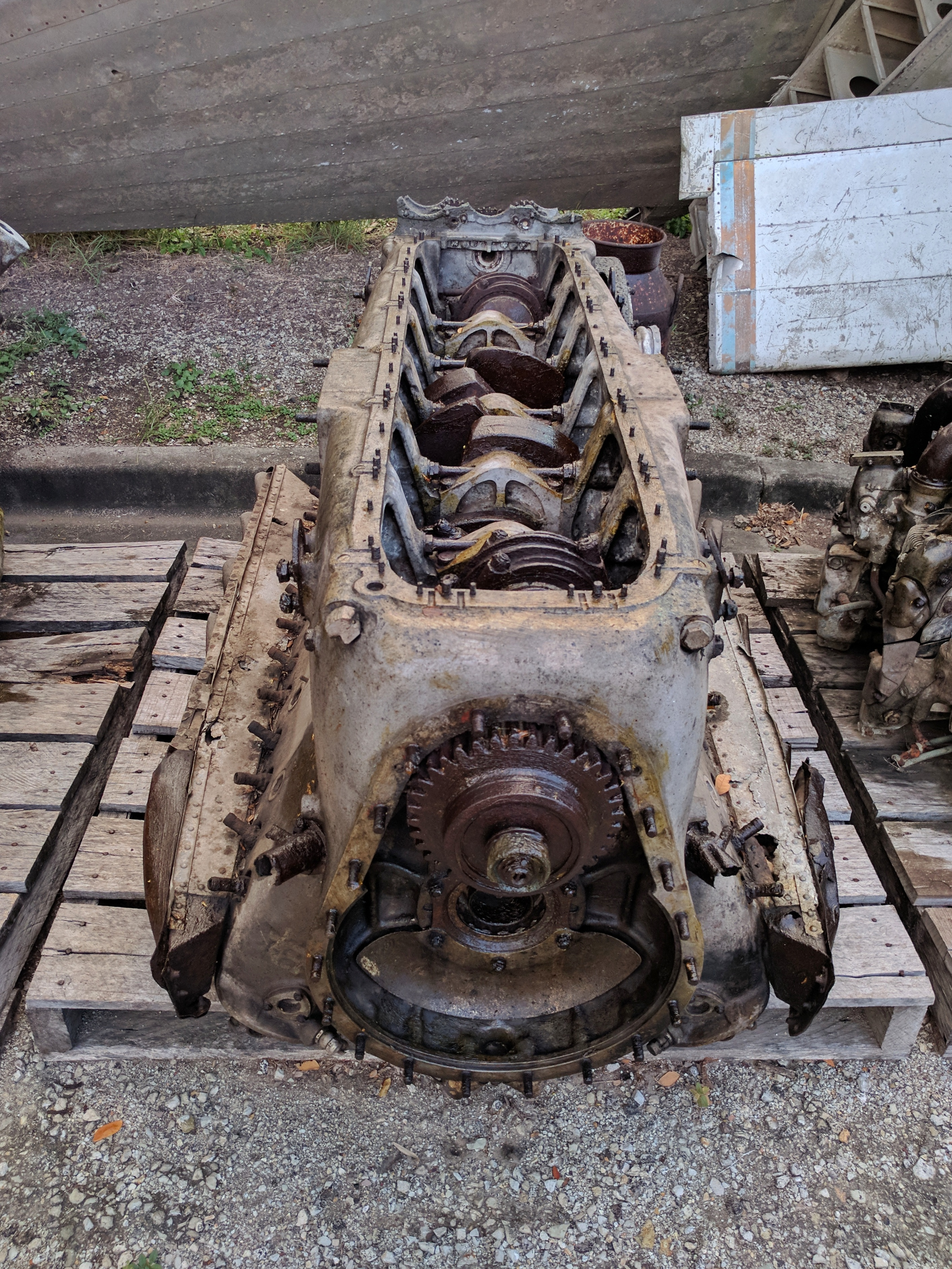 Displayed at the National Museum and Art Gallery, Port Moresby, this may originally have been installed in KI-61-II number 379.